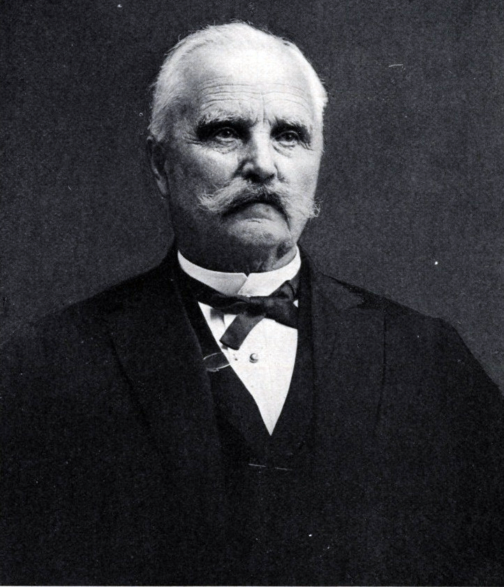 Stephen L. Mayham, New York Congressman